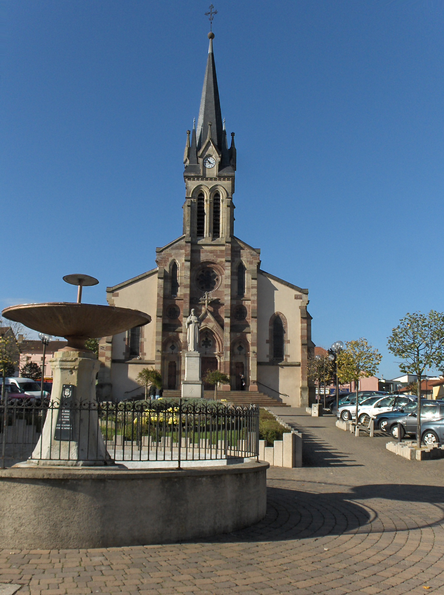 Photograph of the place Saint Martha where is the Church of Saint Francis of Stiring-Wendel